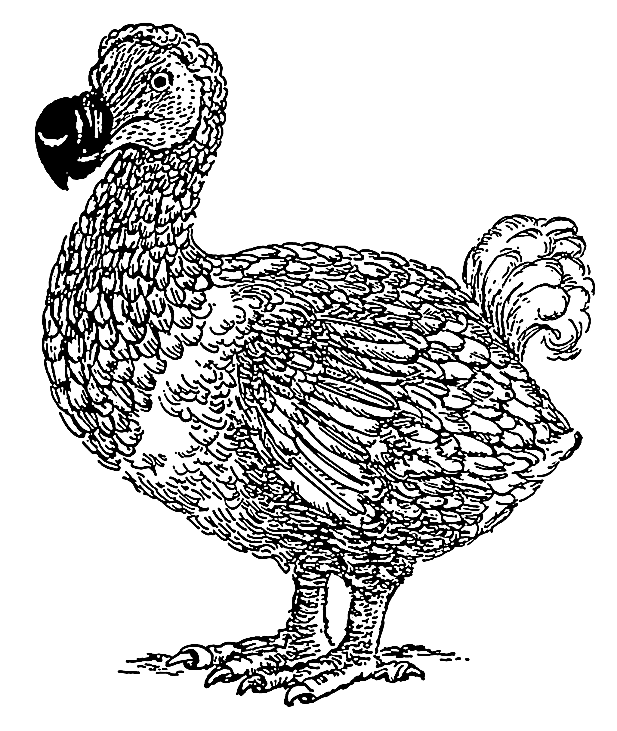 Line art drawing of a dodo.